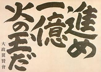 Japanese Poster(During World War II) "Advance! All Japanese people are 100 million balls of fire!"